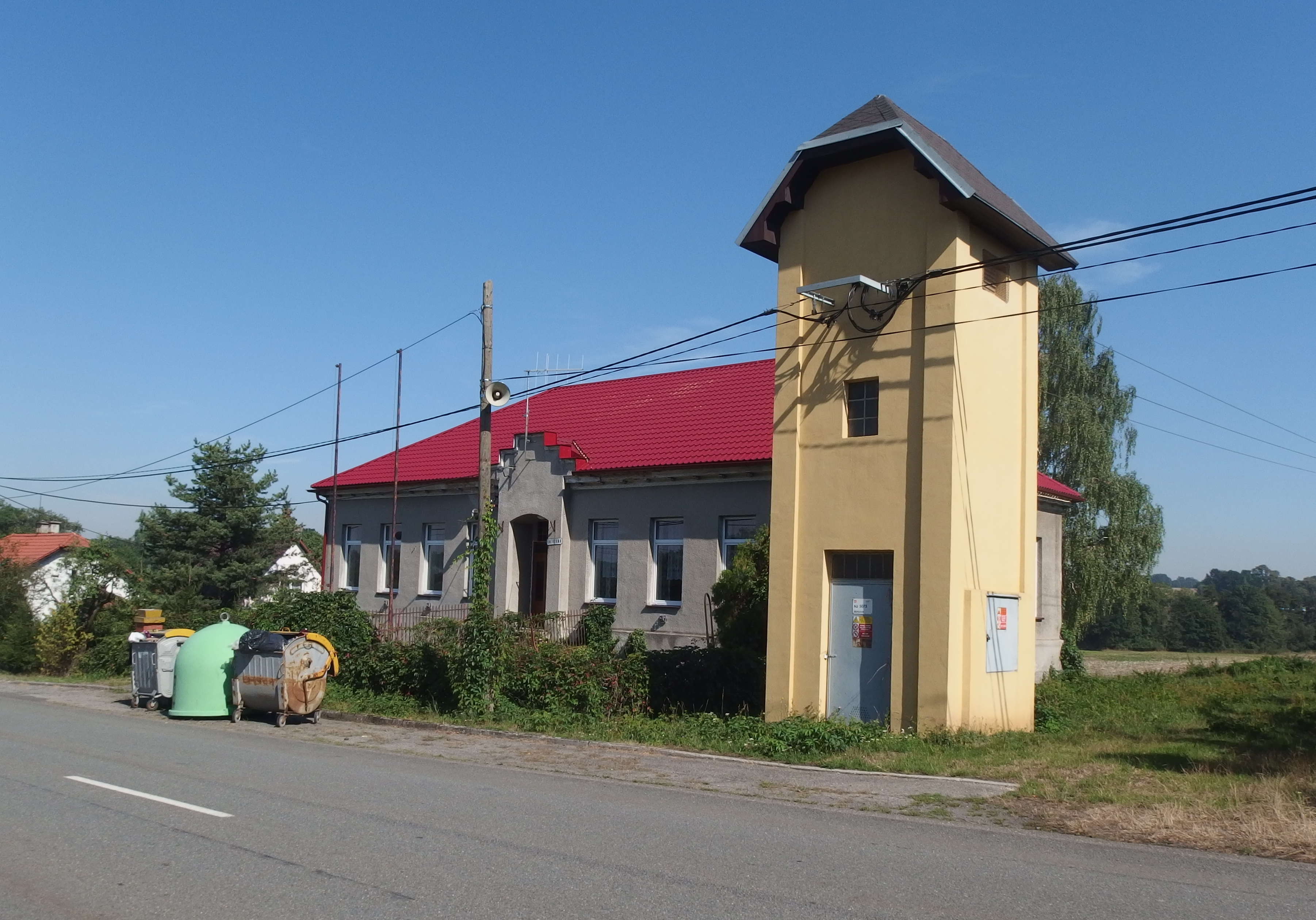 Starý Jičín, Nový Jičín District, Czech Republic, part Dub.